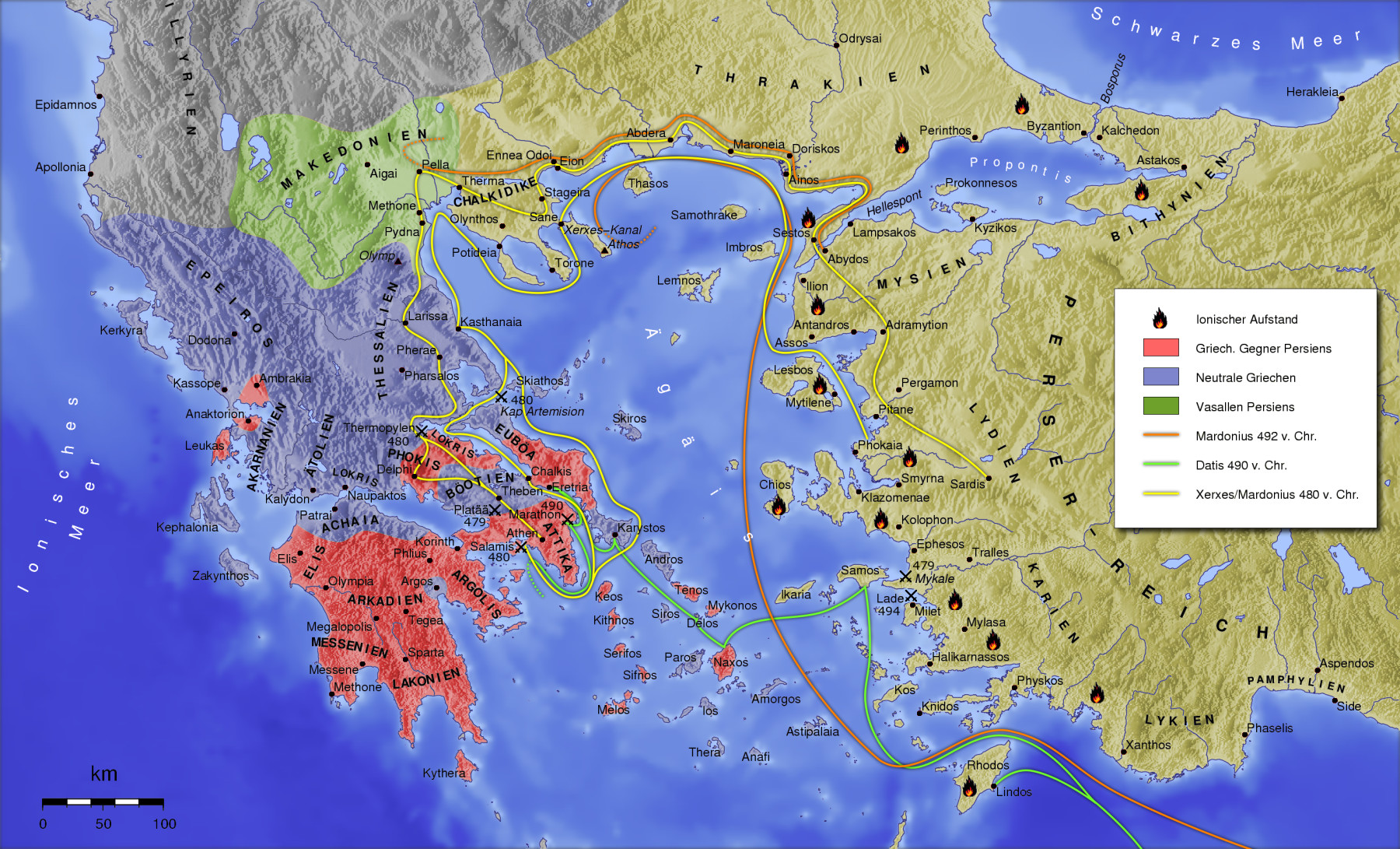 Map showing the Persian Wars of the 5th Cent BCE.